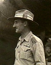 Torokina, Bougainville Island, Solomon Islands. Group Captain W.L. (Bill) Hely, Melbourne, Vic.